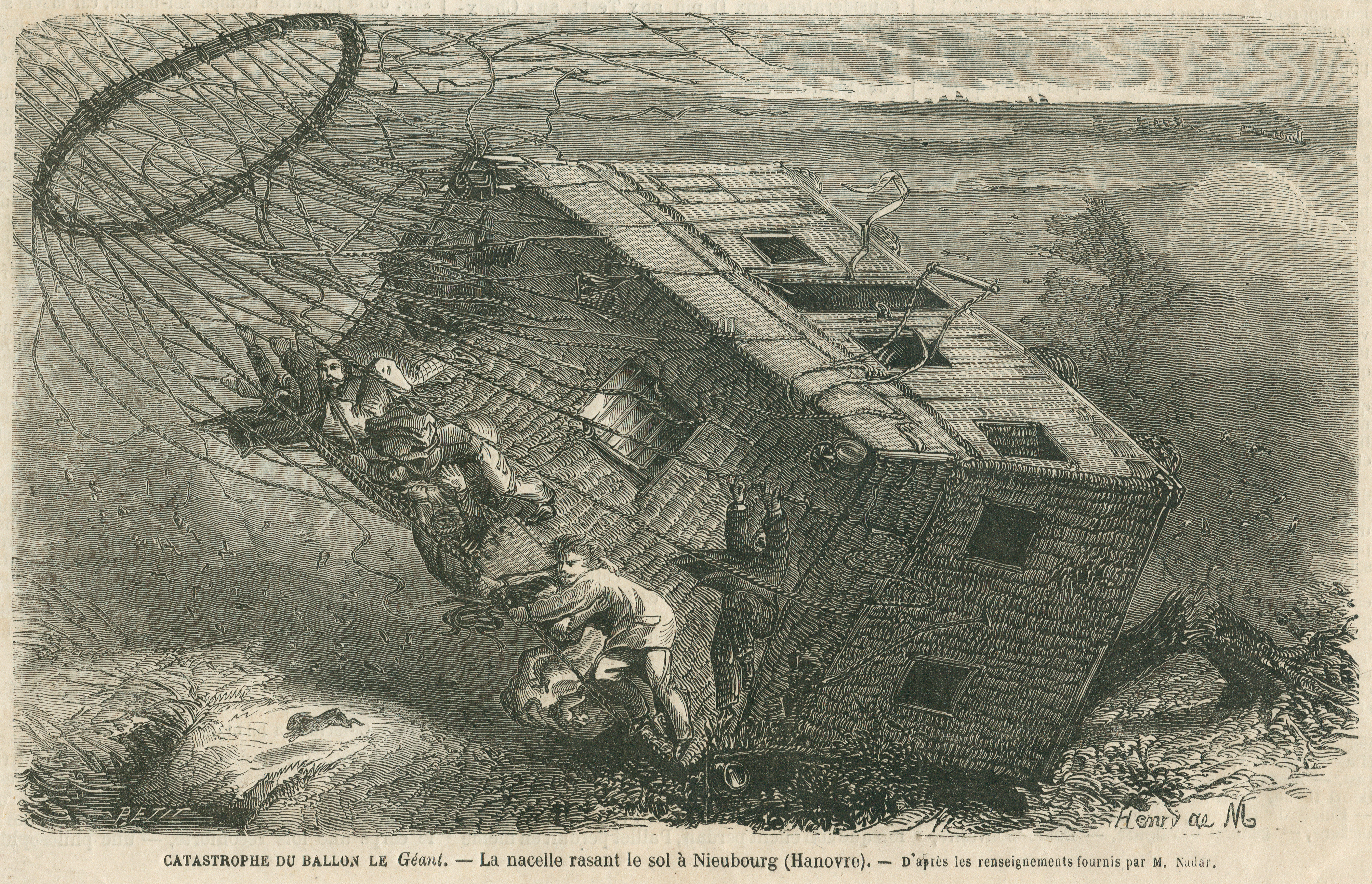 Disaster of the balloon "Le Géant" at "Nieubourg" near Hanover in 1863.